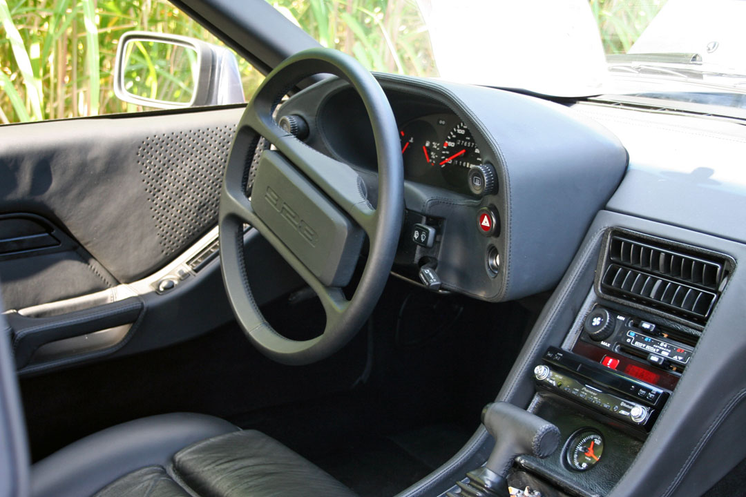 Cockpit of a Porsche 928 S at Classic Days Schloss Dyck 2012.